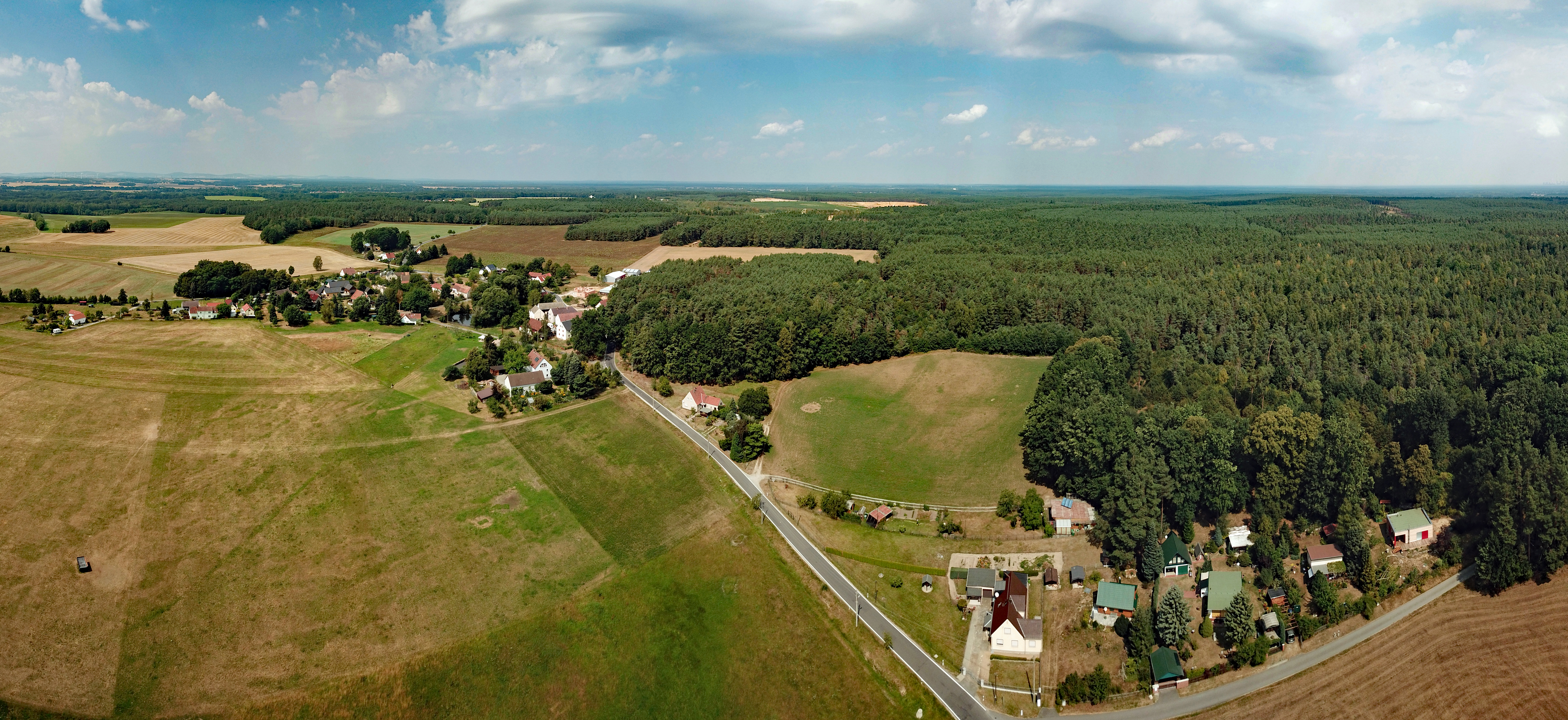 Luppedubrau (Radibor, Saxony, Germany) Hornjoserbsce: Powětrowy wobraz Łupjanskeje Dubrawki